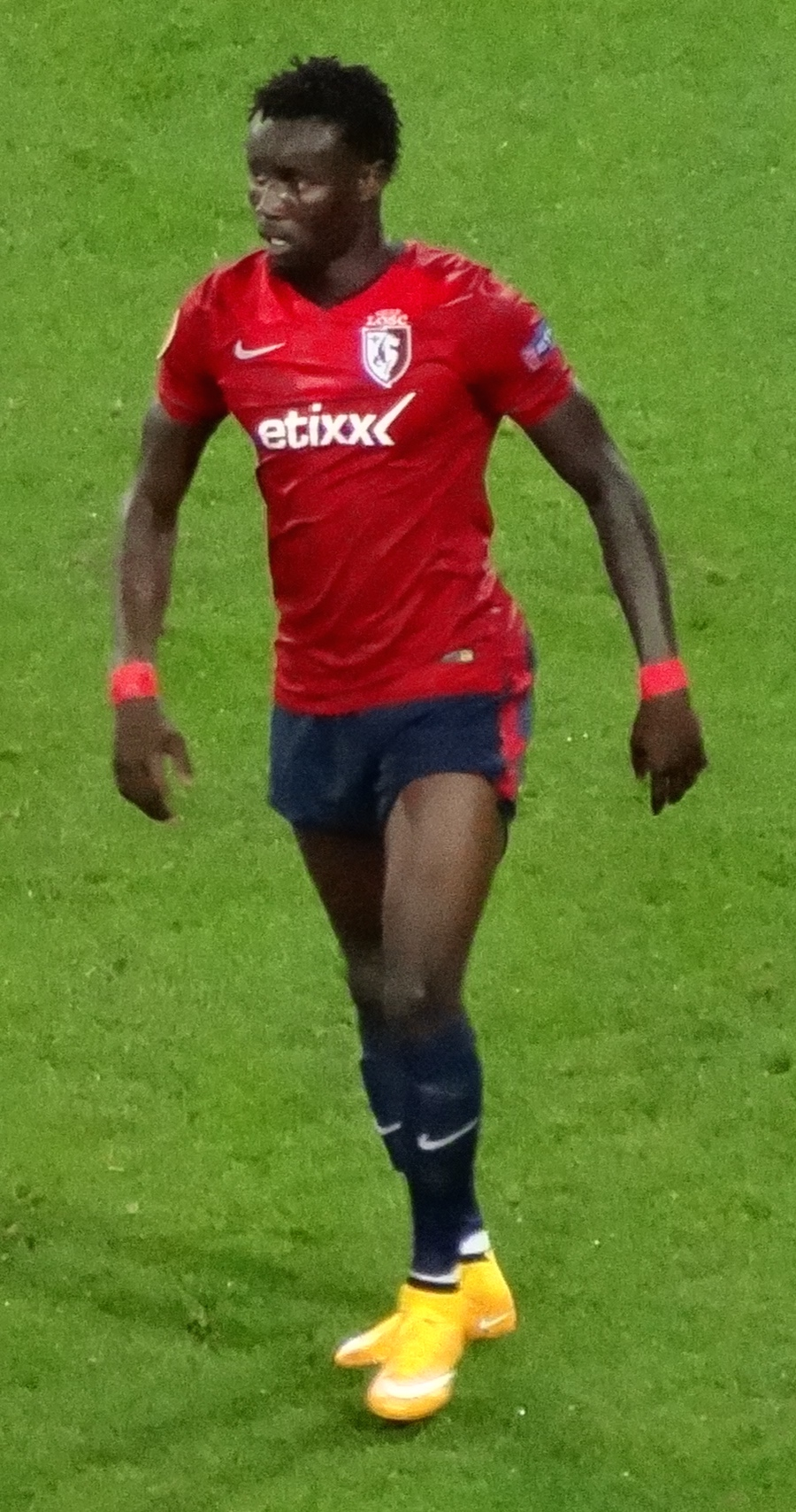 Pape Souaré (LOSC Lille)